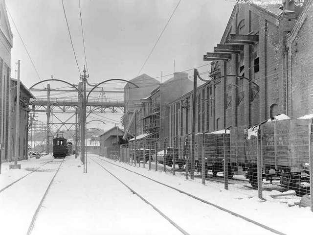 Hafslund karbidfabrikk, showing the railway Hafslundbanen in Sarpsborg, Norway.